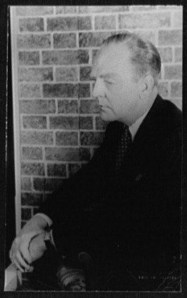 Portrait of William Inge